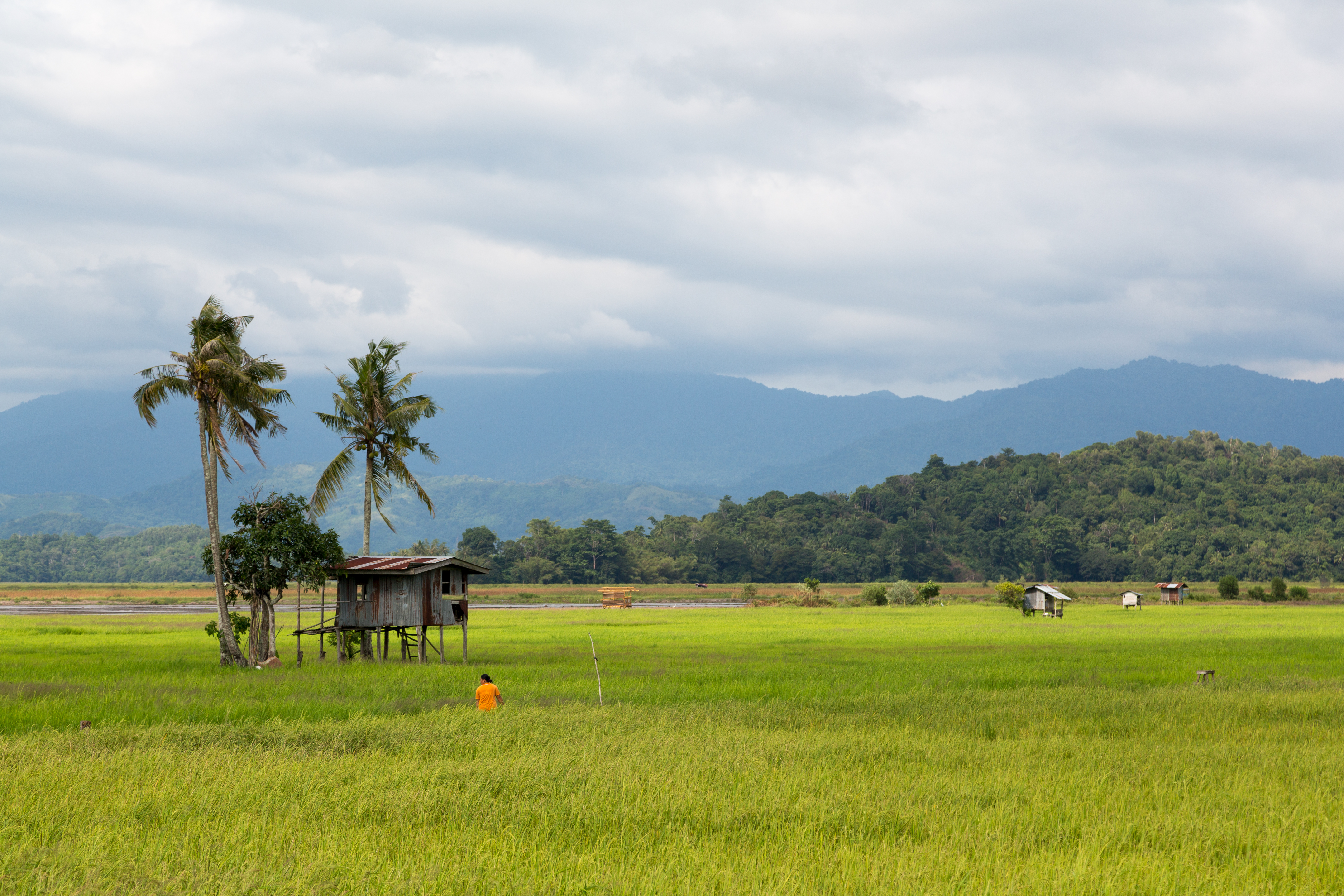 Kota Belud, Sabah: A rice padi of the Tempassuk II rice padi sector